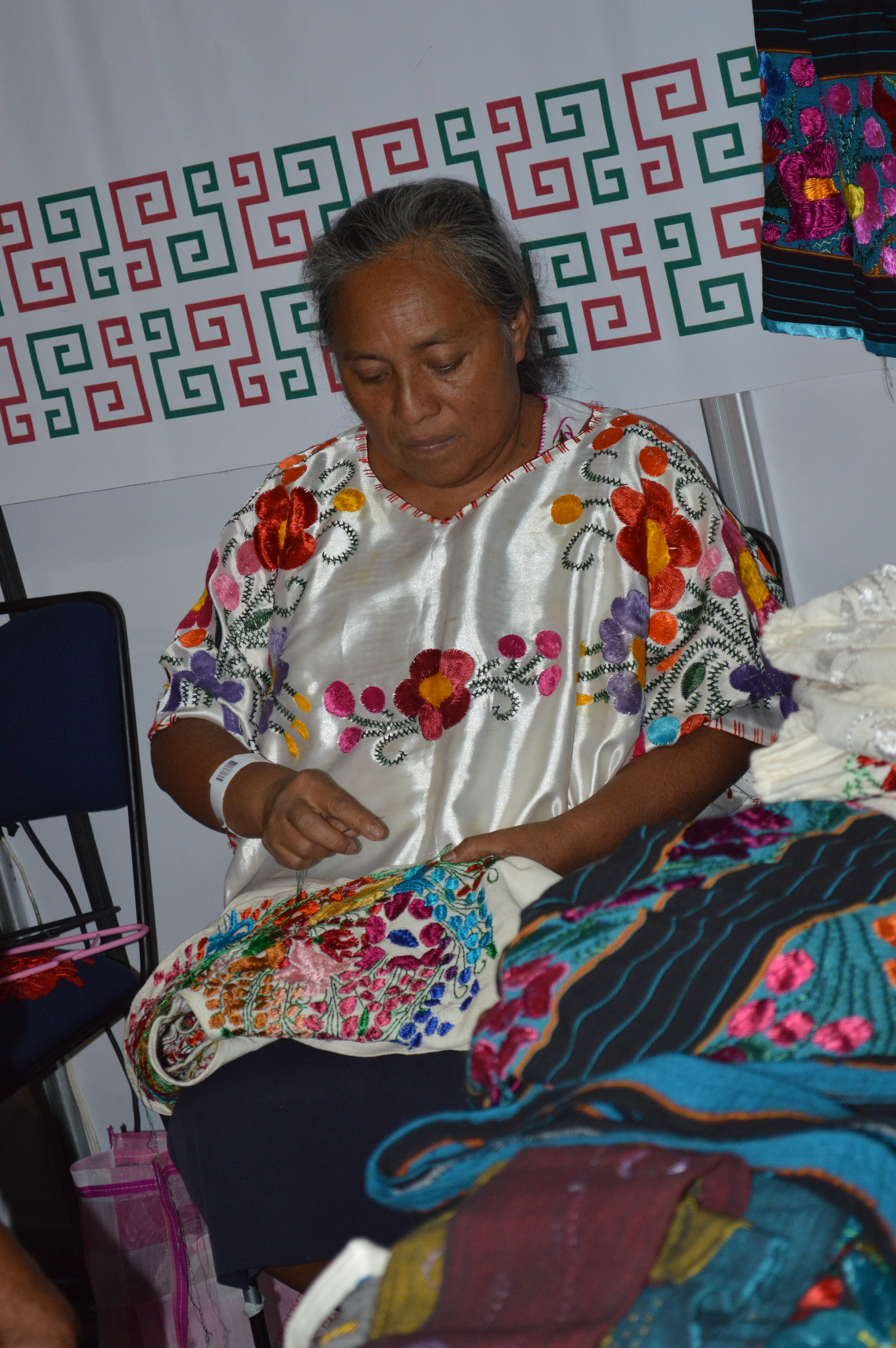 Woman from Chilapa de Alvarez, Guerrero embroidering a blouse at a stand at the Expo de los Pueblos Indíengas in Mexico City